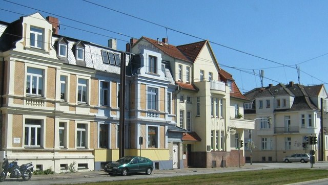 Row of Houses with two parking vehicles in street Luebecker Strasse in Schwerin in Mecklenburg-Vorpommern. The junction with street Obotritenring is on the edge of the viewing field.